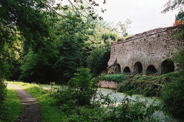 Holcombe Rogus: limekilns at Waytown. A bank of limekilns on the Grand Western Canal, cleared of undergrowth in 2004